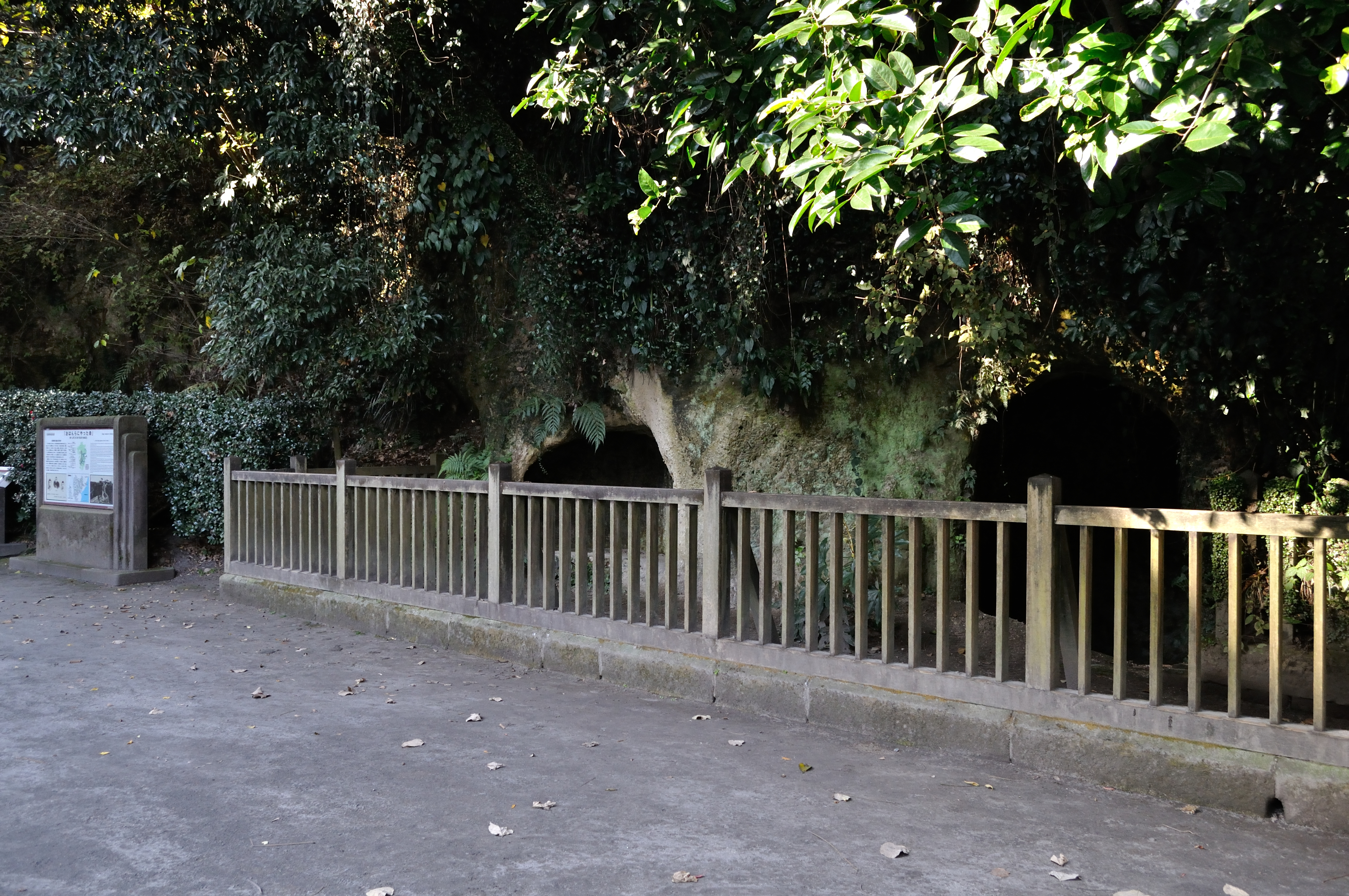 The last Headquarters of Saigō Takamori's army in the Satsuma Rebellion. Called "Saigo Cave".